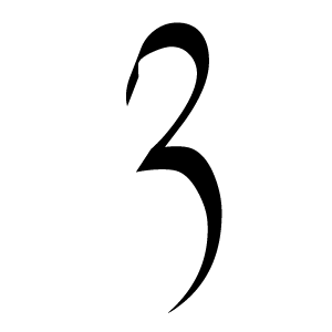 Diacritic in Javanese script. Adding 'h' after the consonant.